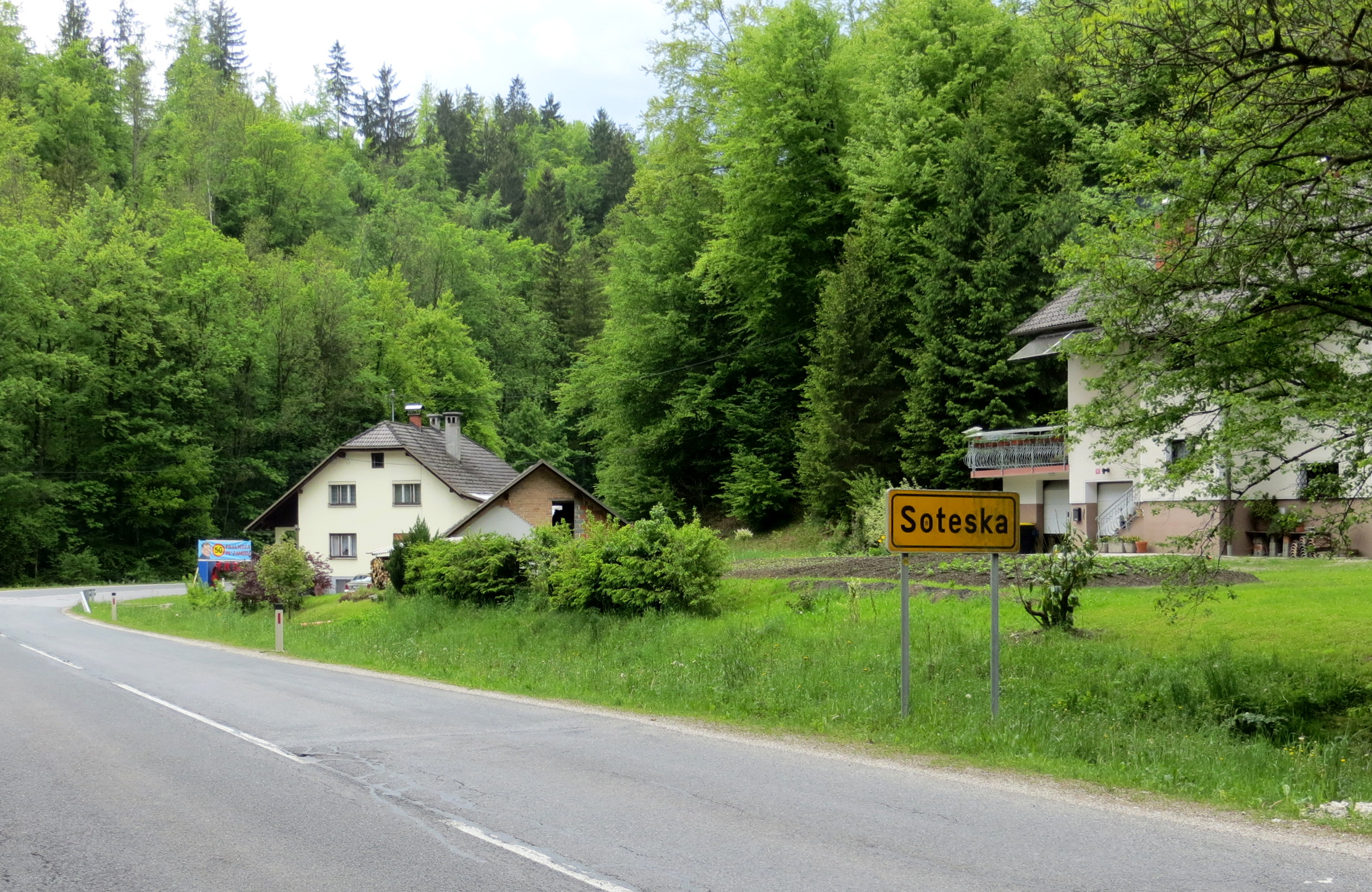 Soteska, Municipality of Kamnik, Slovenia